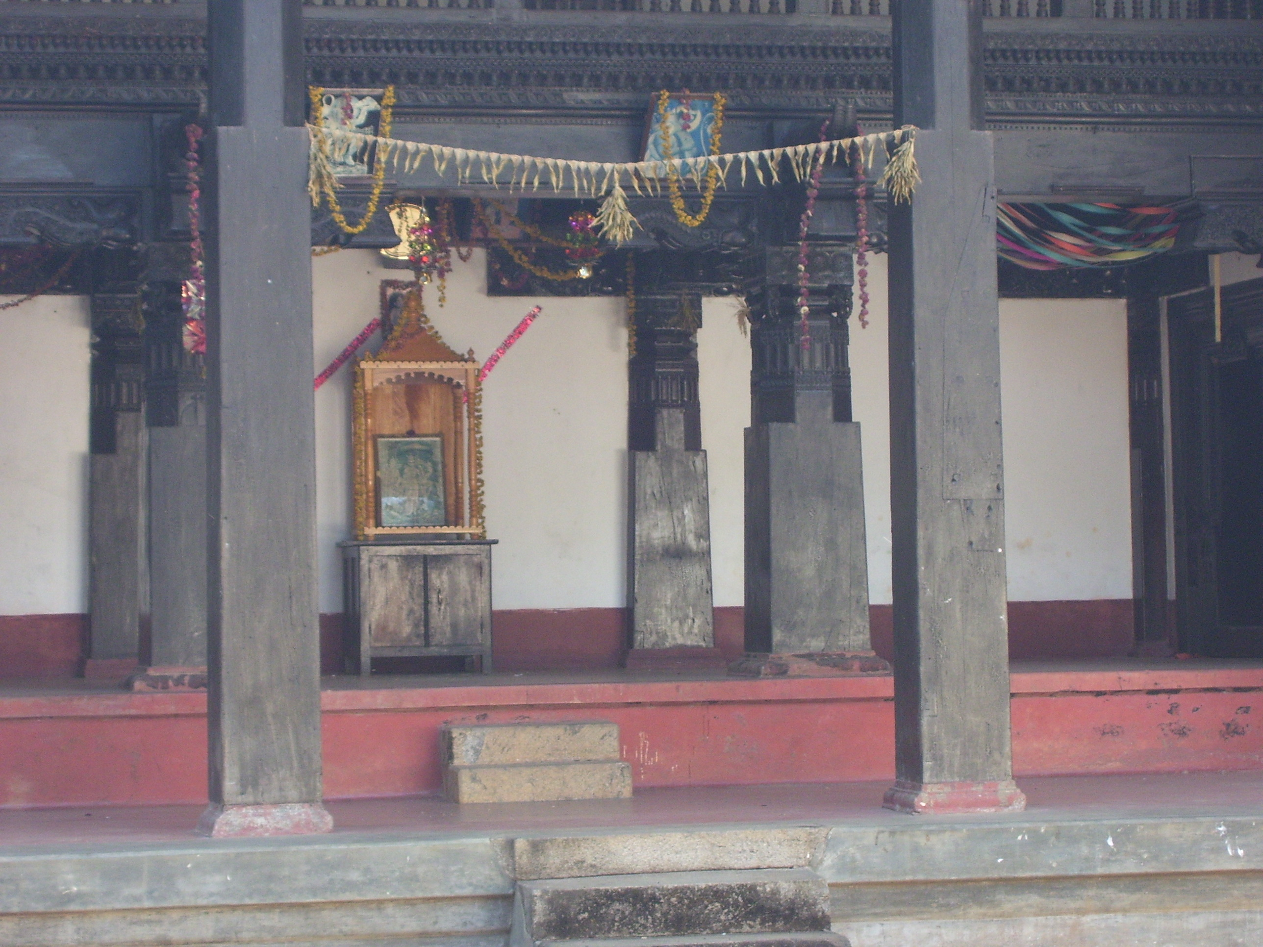 Krishnapura Matha North side